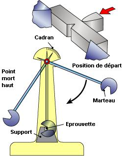 Charpy testing machine'scheme